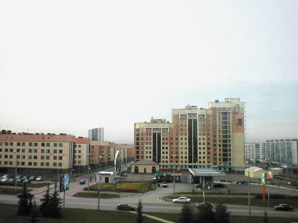 Universiade Village in Kazan (north-east view)